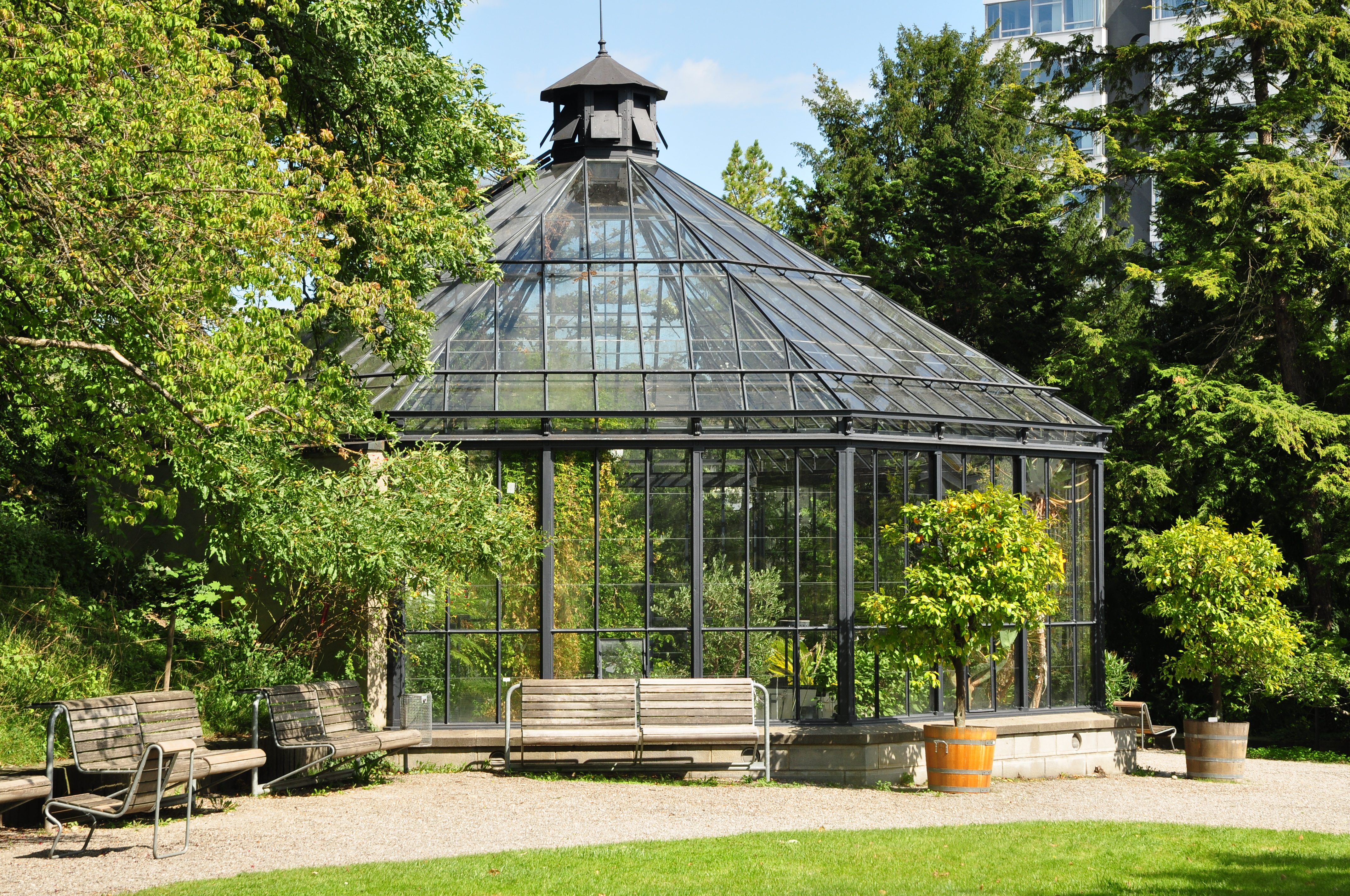 Botanical Garden «zur Katz» in Zürich (Switzerland).